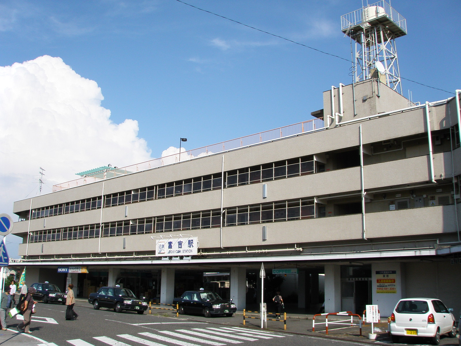 Kinki Nippon Railway Tomiyoshi Station North Gate